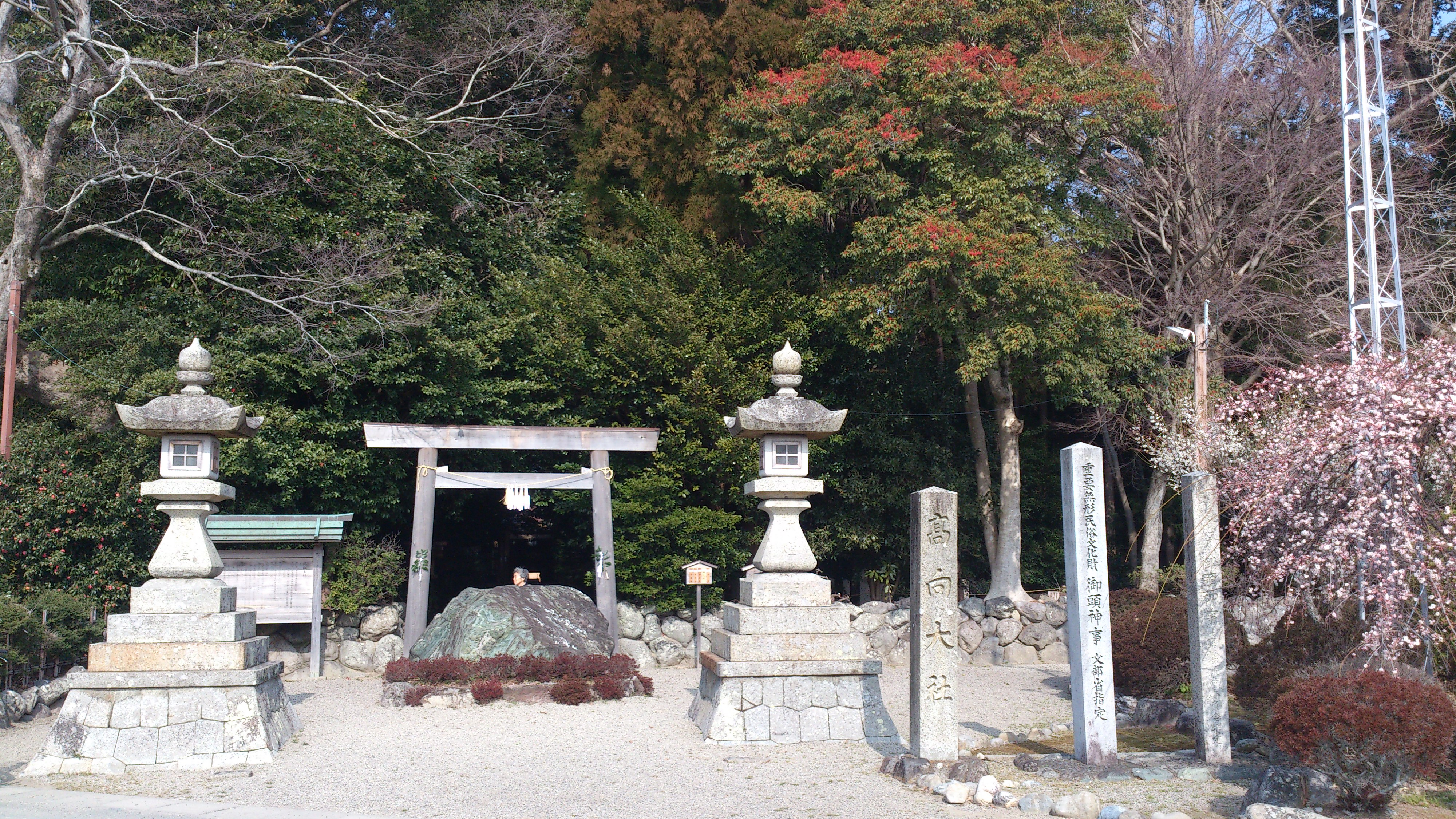 This is the Takabuku Taisha shrine, which is located in Ise, Mie, Japan.